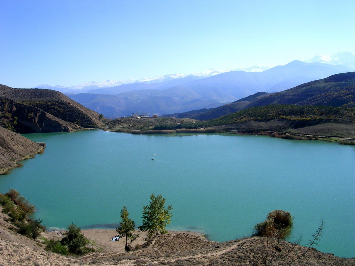 Valasht Lake, Chalous county, Mazandaran, Iran